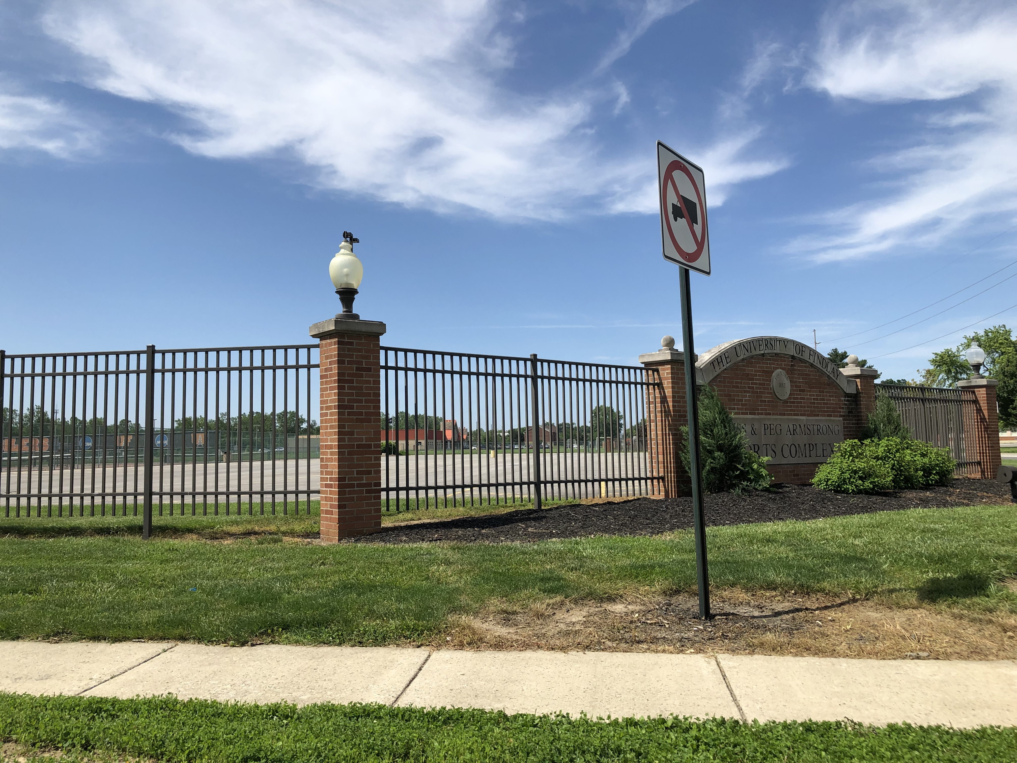 Russ and Peg Armstrong Sports Complex at the University of Findlay